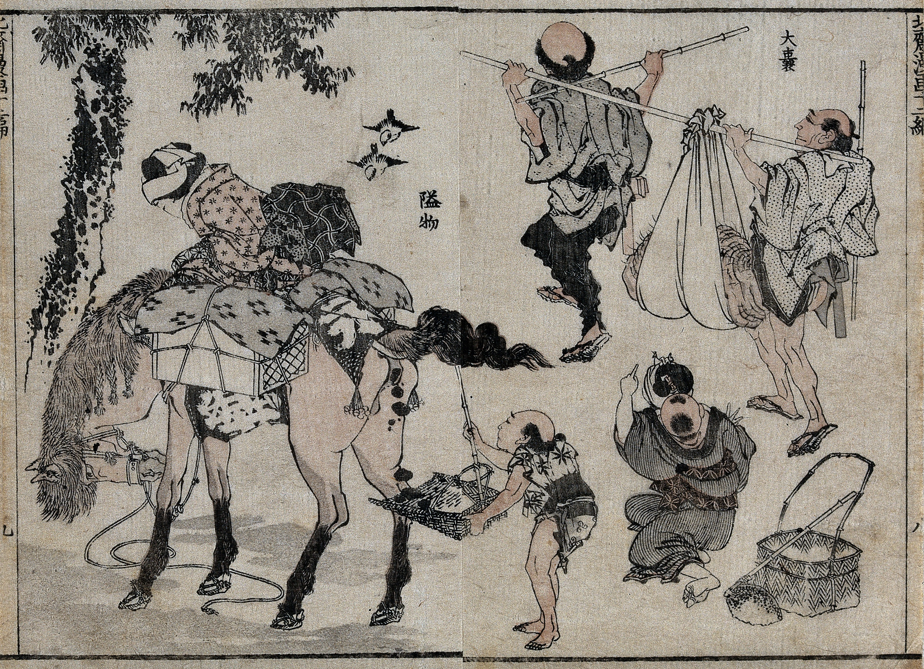 Left, a small man lifts a horse's tail with a bamboo rod to catch its dung in a scoop; above right, a man with filarial elephantiasis is helped to carry his enlarged scrotum supported with a sling; below right, a woman carrying a baby on her back points in amazement Iconographic Collections Keywords: Japan; Horse; Scrotum; Elephantiasis, Filarial; Hokusai Katsushika